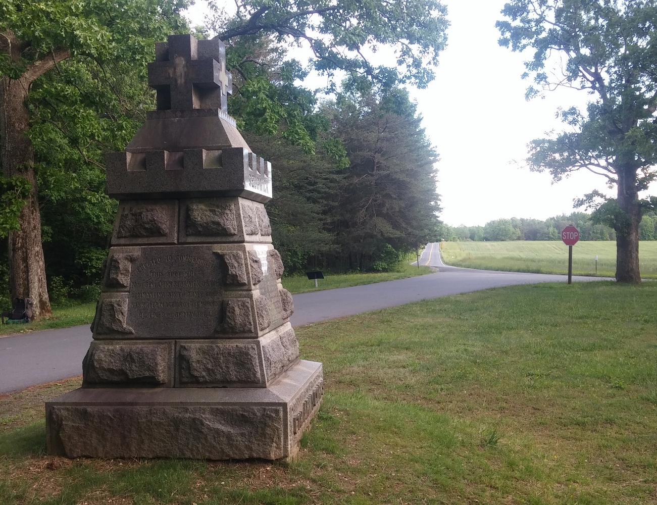 Sedgwick monument at Spotsylvania battlefield (and Laurel Hill)